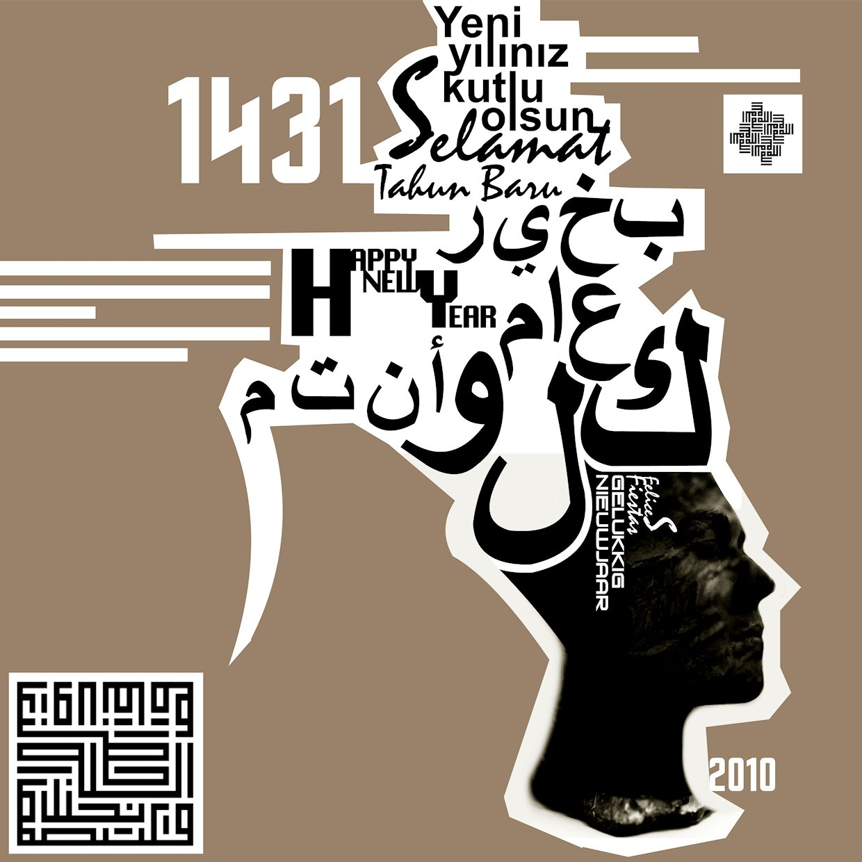 Illustration for the Muslim New Year 1431, made as a head adorned with New Year's greetings in Turkish, Bahasa, English, Arabic and other languages.